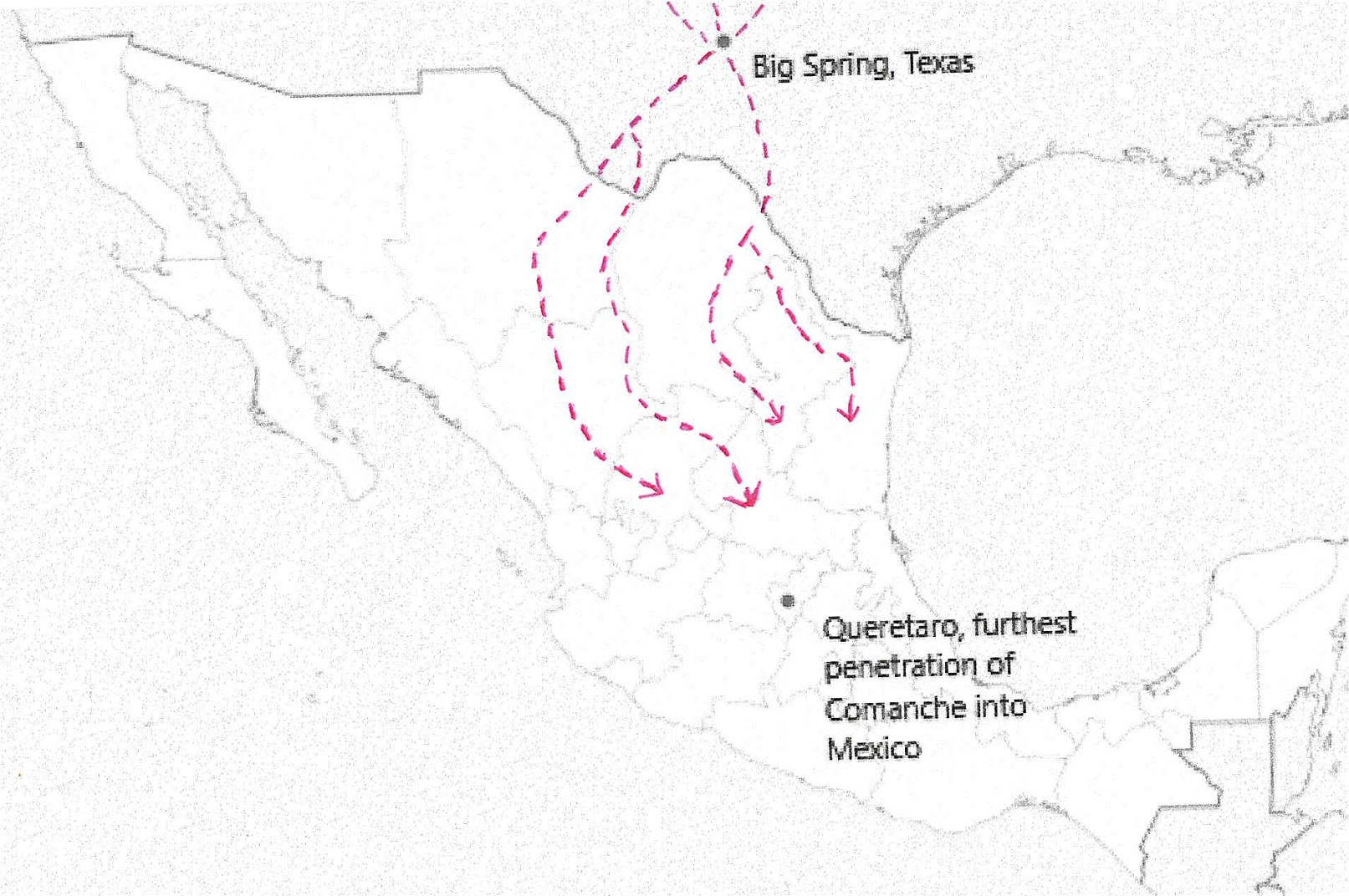 The routes used by Comanche to raid Mexico.